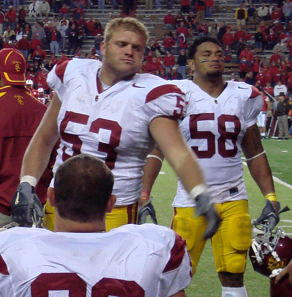 Offensive guard Jeff Byers (#53) and linebacker Rey Maualuga (#58) during the closing minutes of a USC victory over Nebraska.